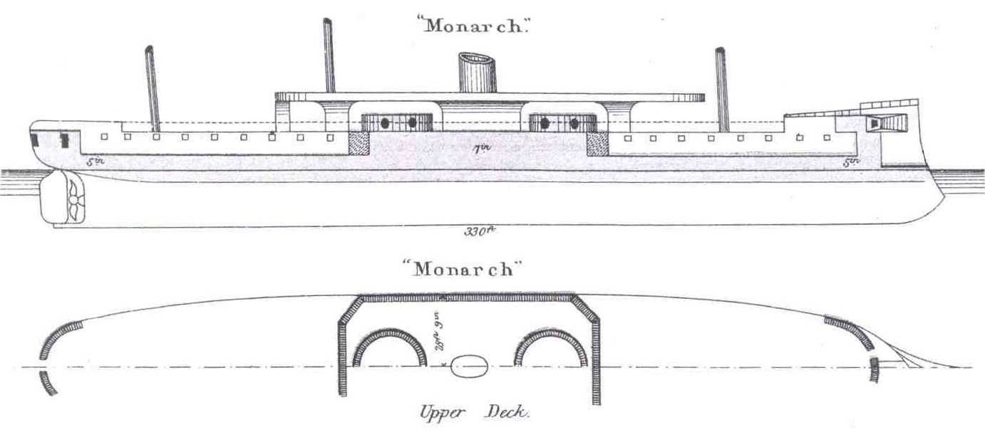 Diagrams depicting right elevation and plan views of British ironclad turret battleship HMS Monarch.